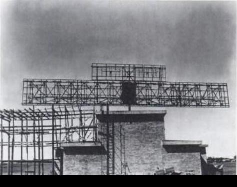 Antenna of a World War 2 German Jagdschloss (FuMG 404) "Hunting Lodge" air defense radar under construction. It had 18 dipole radiators mounted in front of a 60 m reflective screen, and radiated a narrow vertical fan-shaped beam of 2.4 m (125 MHz) radio waves to locate enemy aircraft in azimuth. The Jagdschloss was the first radar to use a "Plan Position Indicator" (PPI) display. The scaffolding to the left is not part of the antenna. Information from Louis Brown (1999) A Radar History of World War 2, p. 200